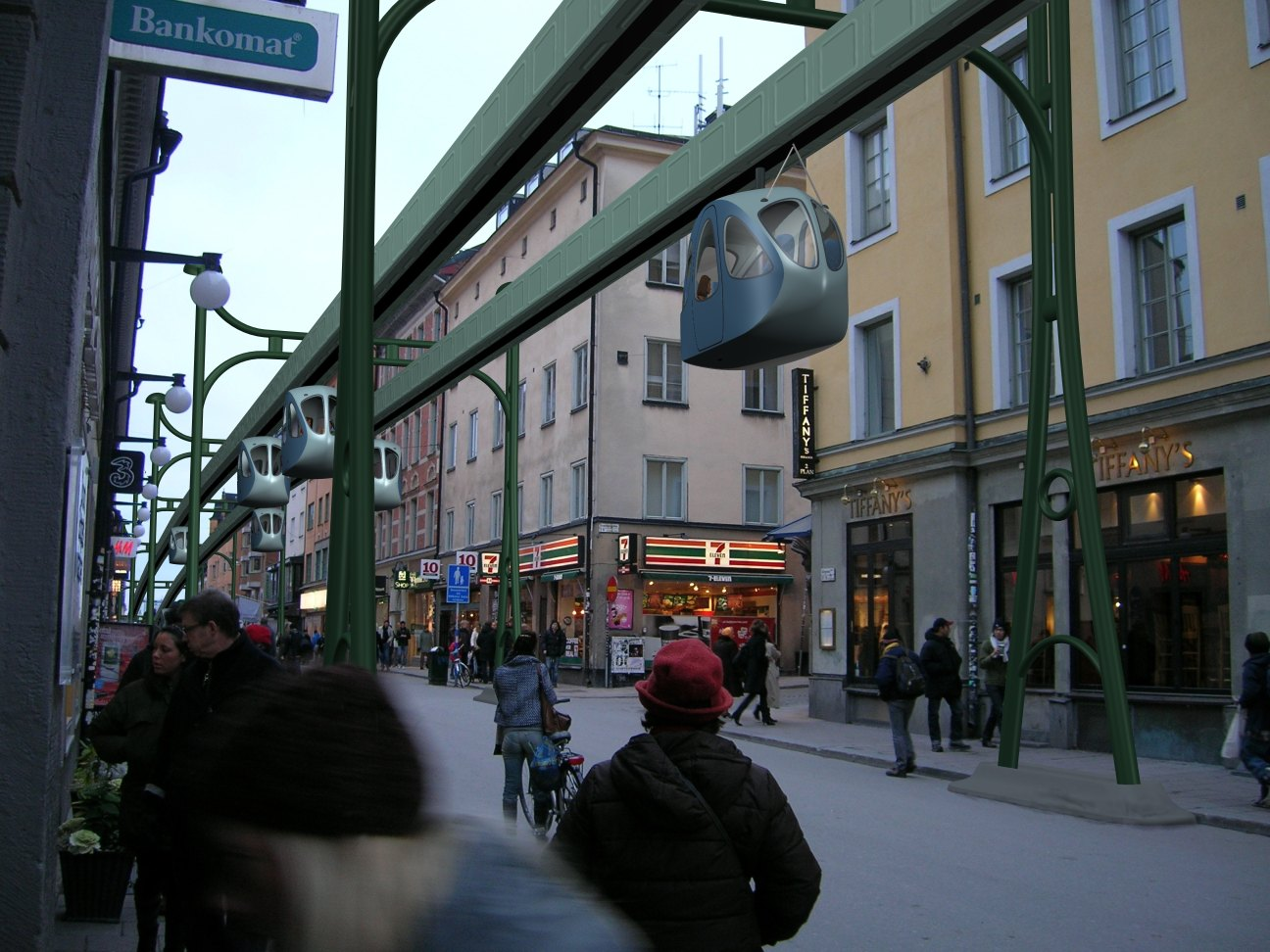 Computer art on photo backround. All by Hans Kylberg (VisuLogik) December 2006